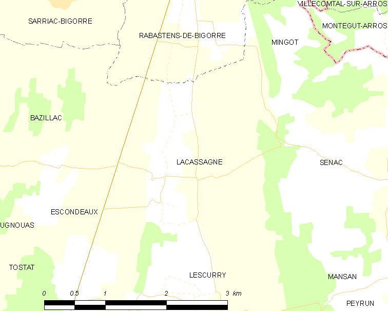 Map of French municipality